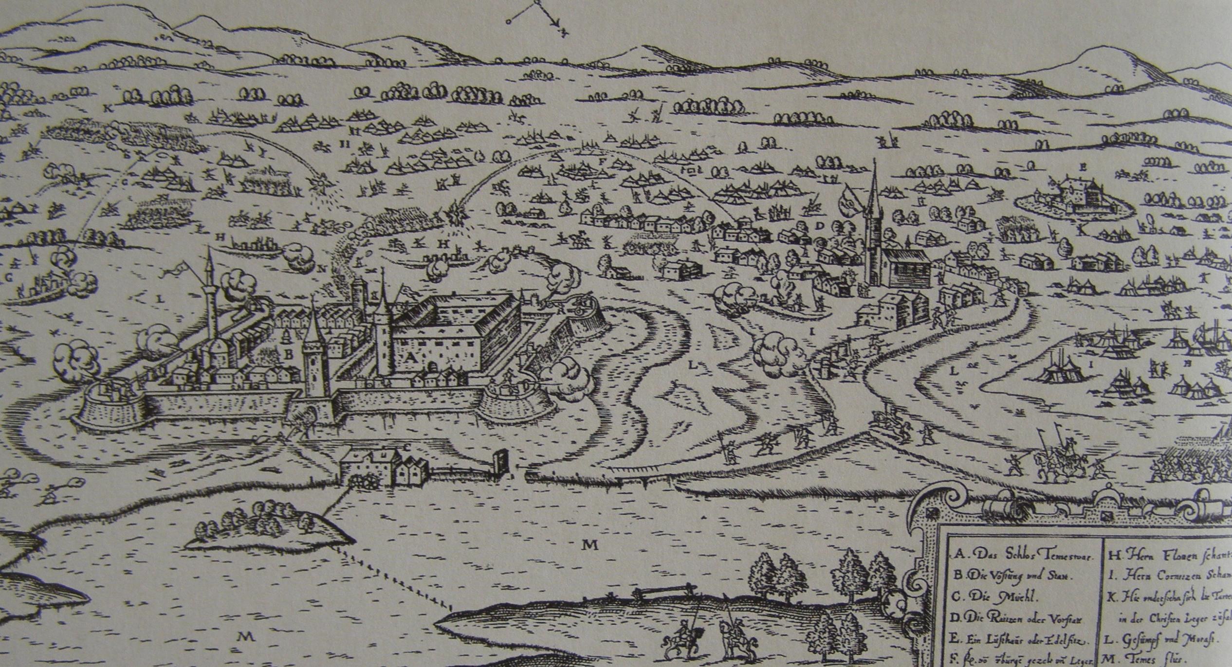 Timişoara in 1596